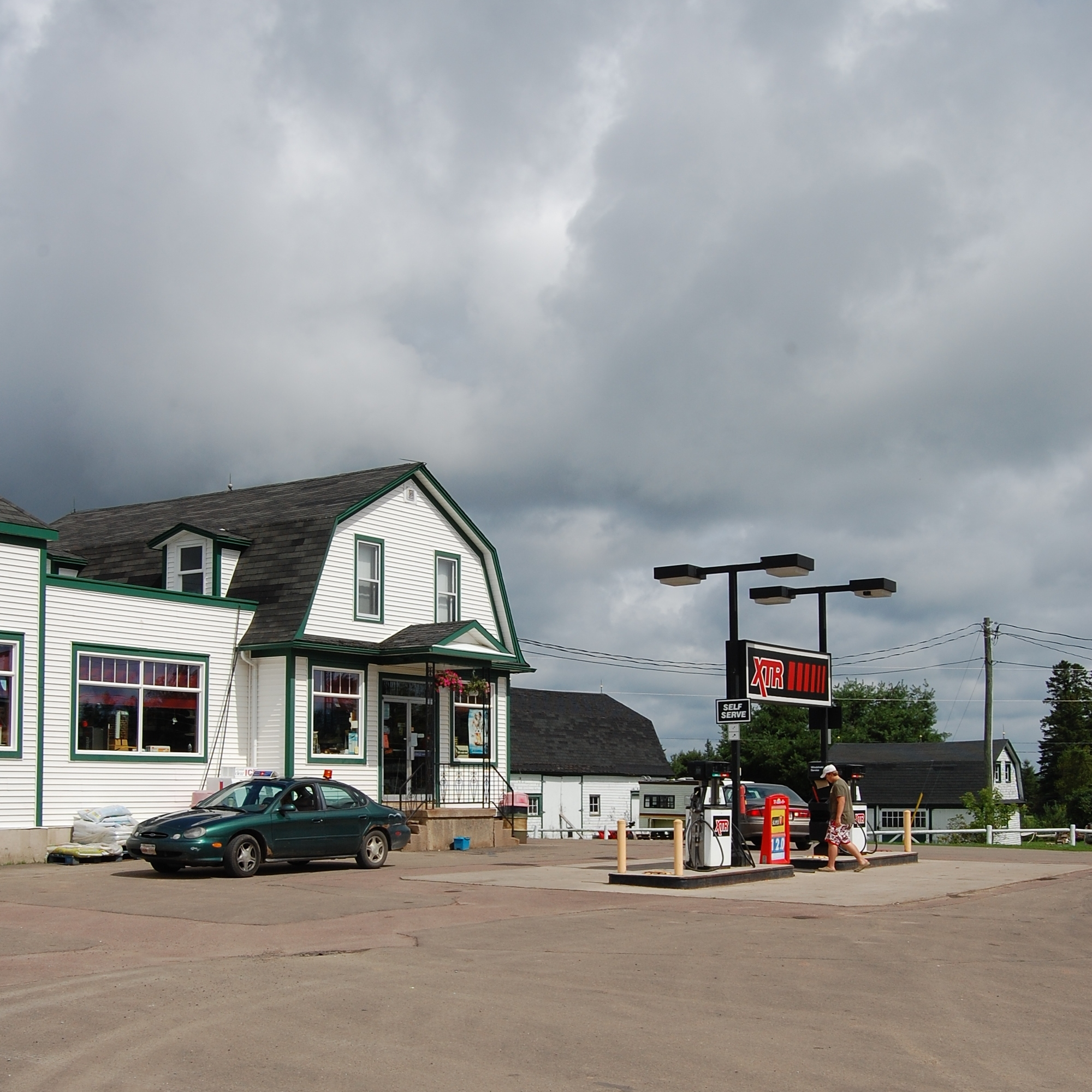 Thompson's General Store and related buildings at Four Corners in Bass River NB